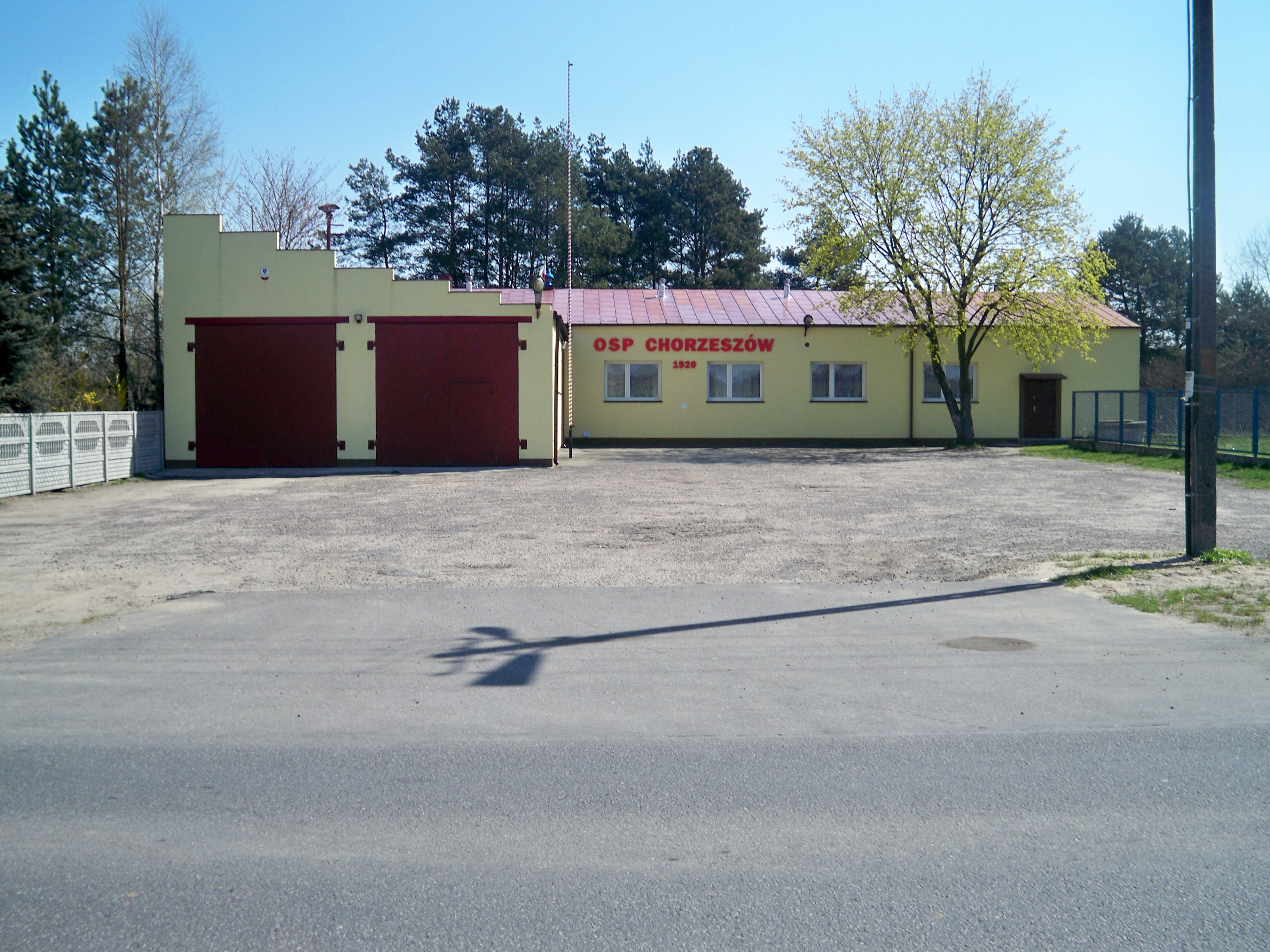 My photo